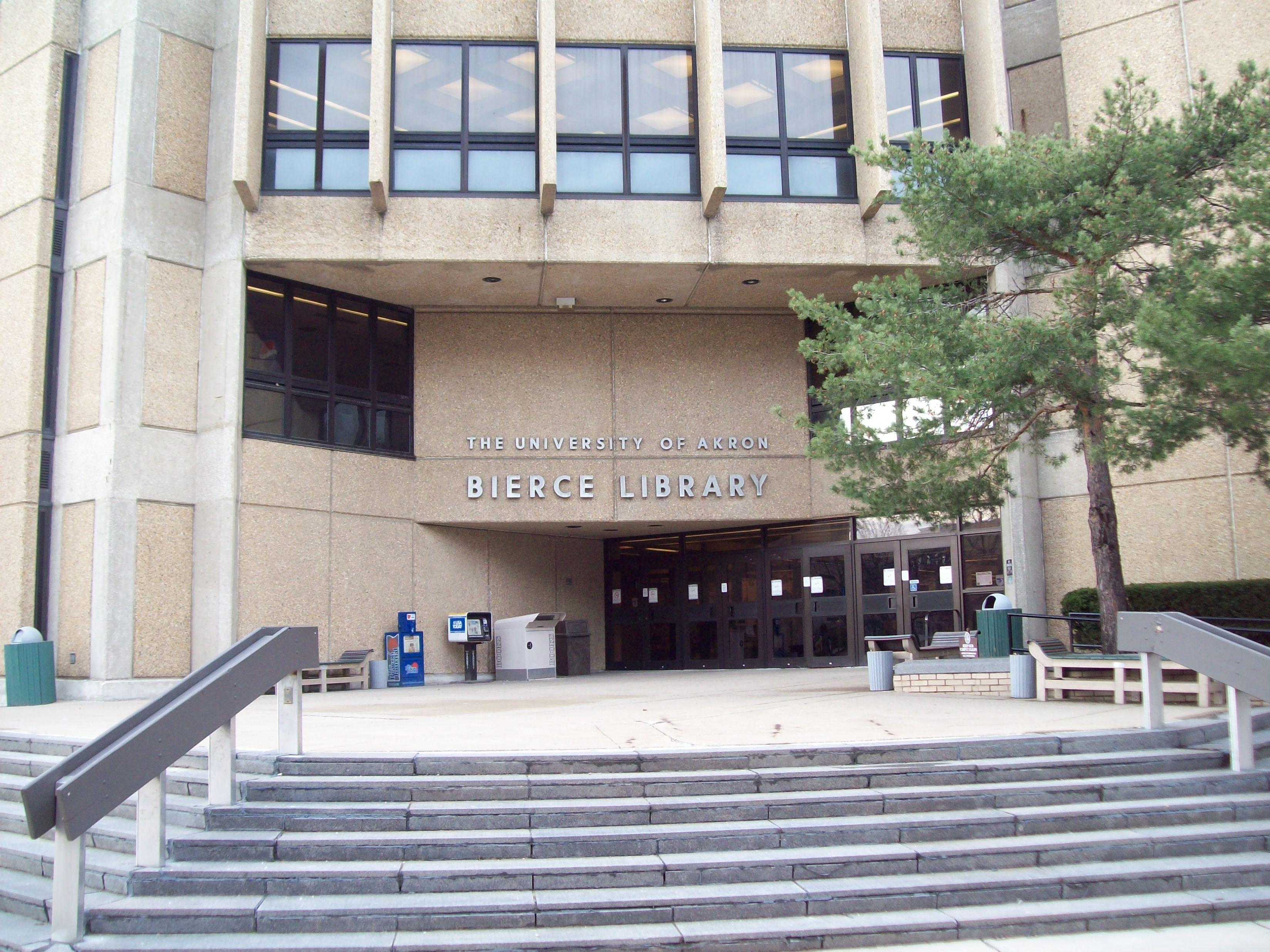 University of Akron's Bierce Library.